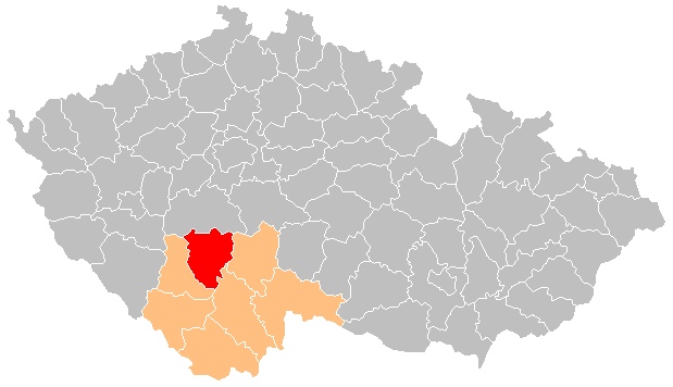 District of Písek